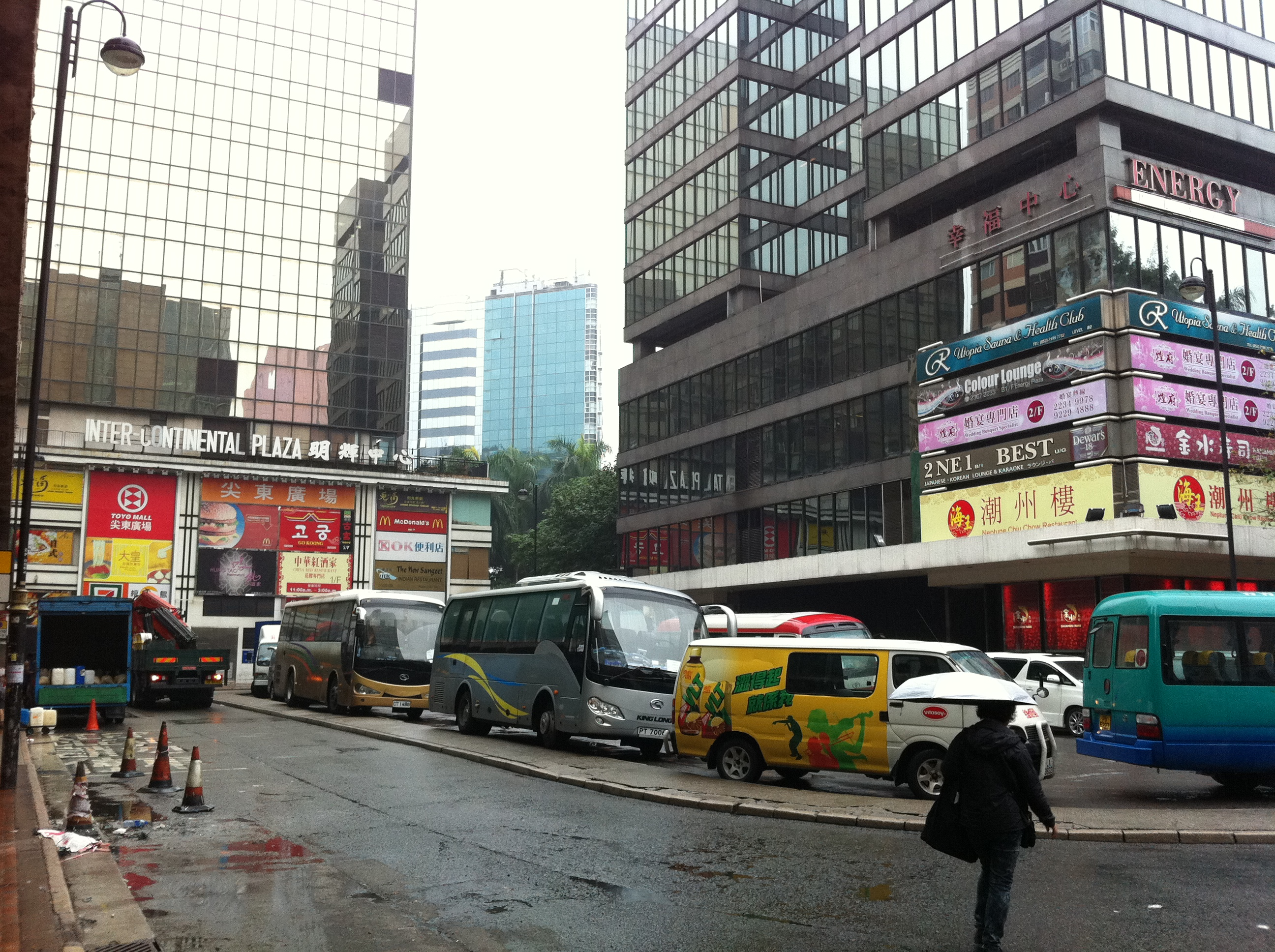 尖東 加連威老廣場, Granville Square, Tsim Sha Tsui East, Hong Kong